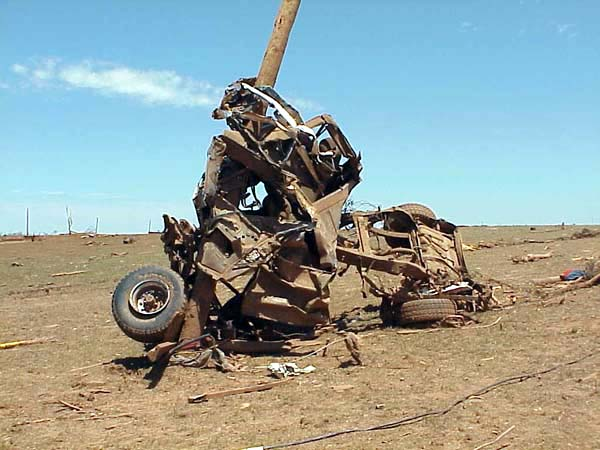 An F5 tornado from Moore, Oklahoma tornado on May 3rd, 1999, wrapped a large four-wheel drive pickup around a utility pole, stripping most of the truck's sheet metal. Several other automobiles were strewn through the surrounding fields.